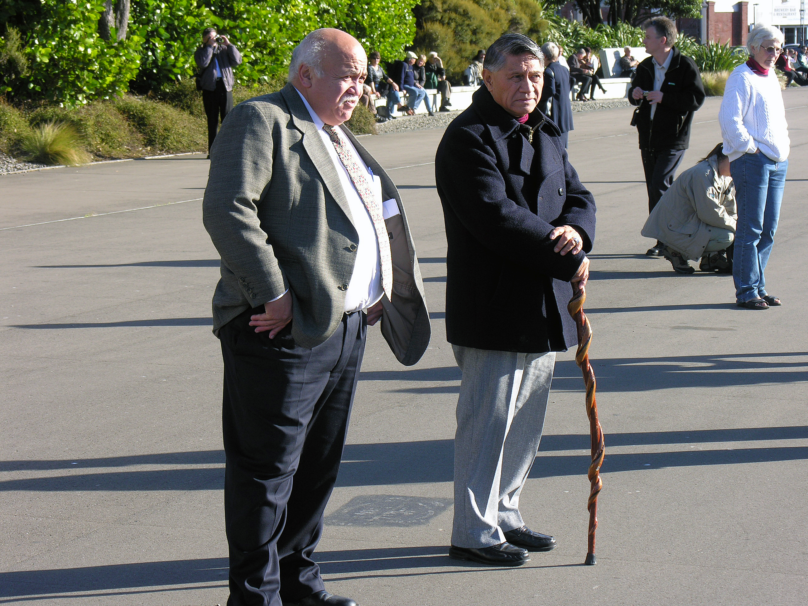 Kaumatua at the sinking of HMNZS Wellington (F-69), Wellington, New Zealand.